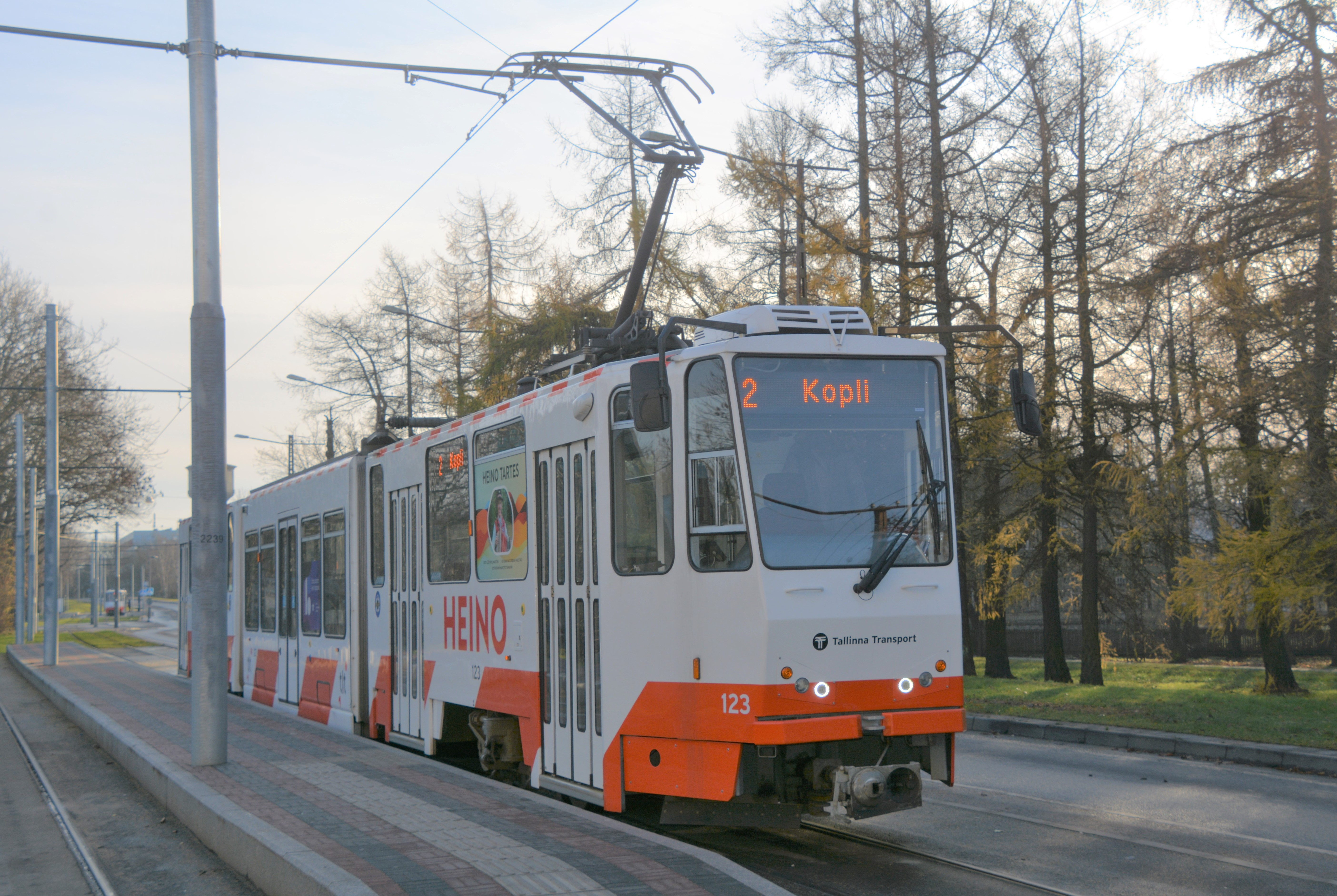 Tatra KT6TM Tallinn